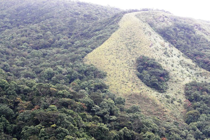 Image of Hakgala Strict Nature Reserve, Sri Lanka